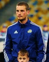 Predrag Rajković